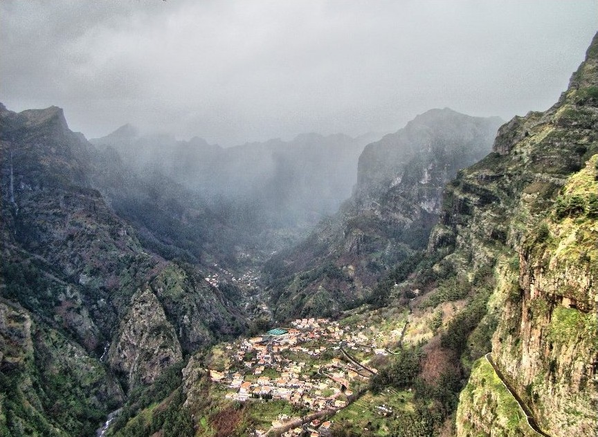 Curral das Freiras